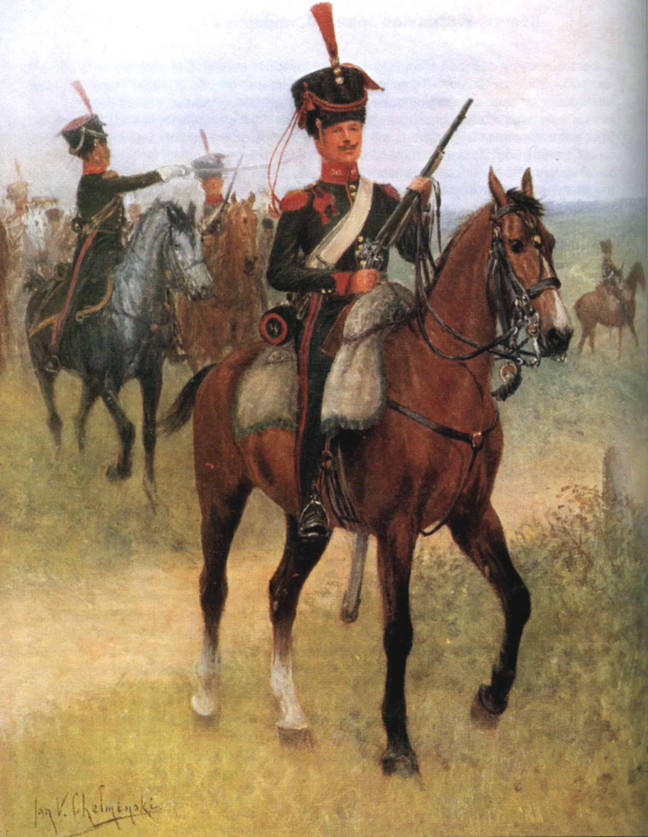 4th Regiment of Horse Chasseurs of Duchy of Warsaw